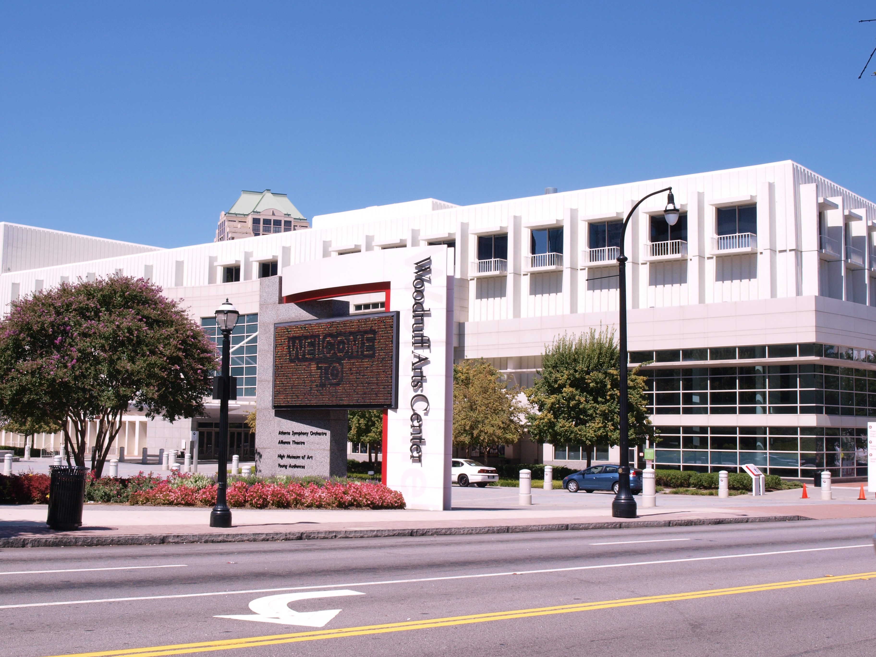 Woodruff Arts Center — in Midtown Atlanta, Georgia.